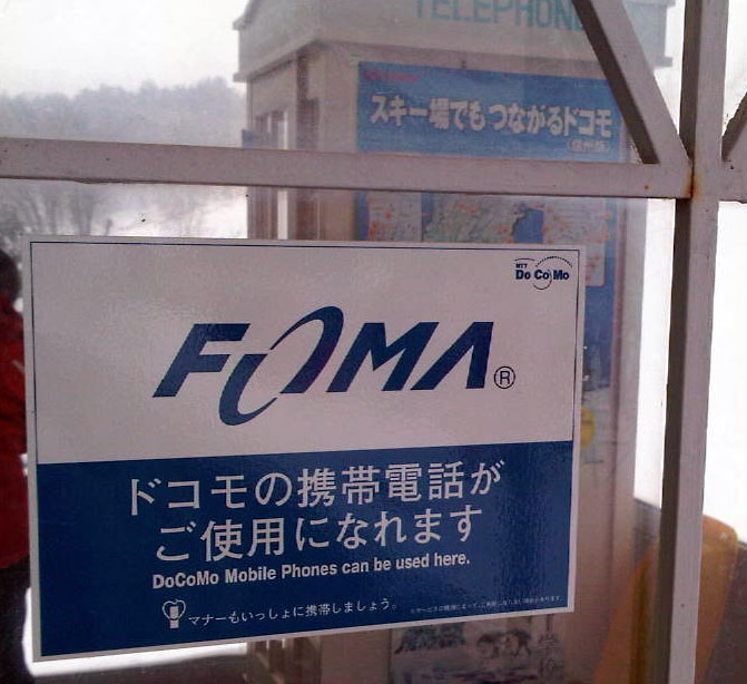 FOMA